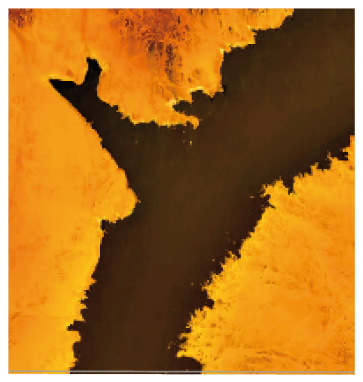 Map of Lake Nasser in the former Wadi Halfa Salient area